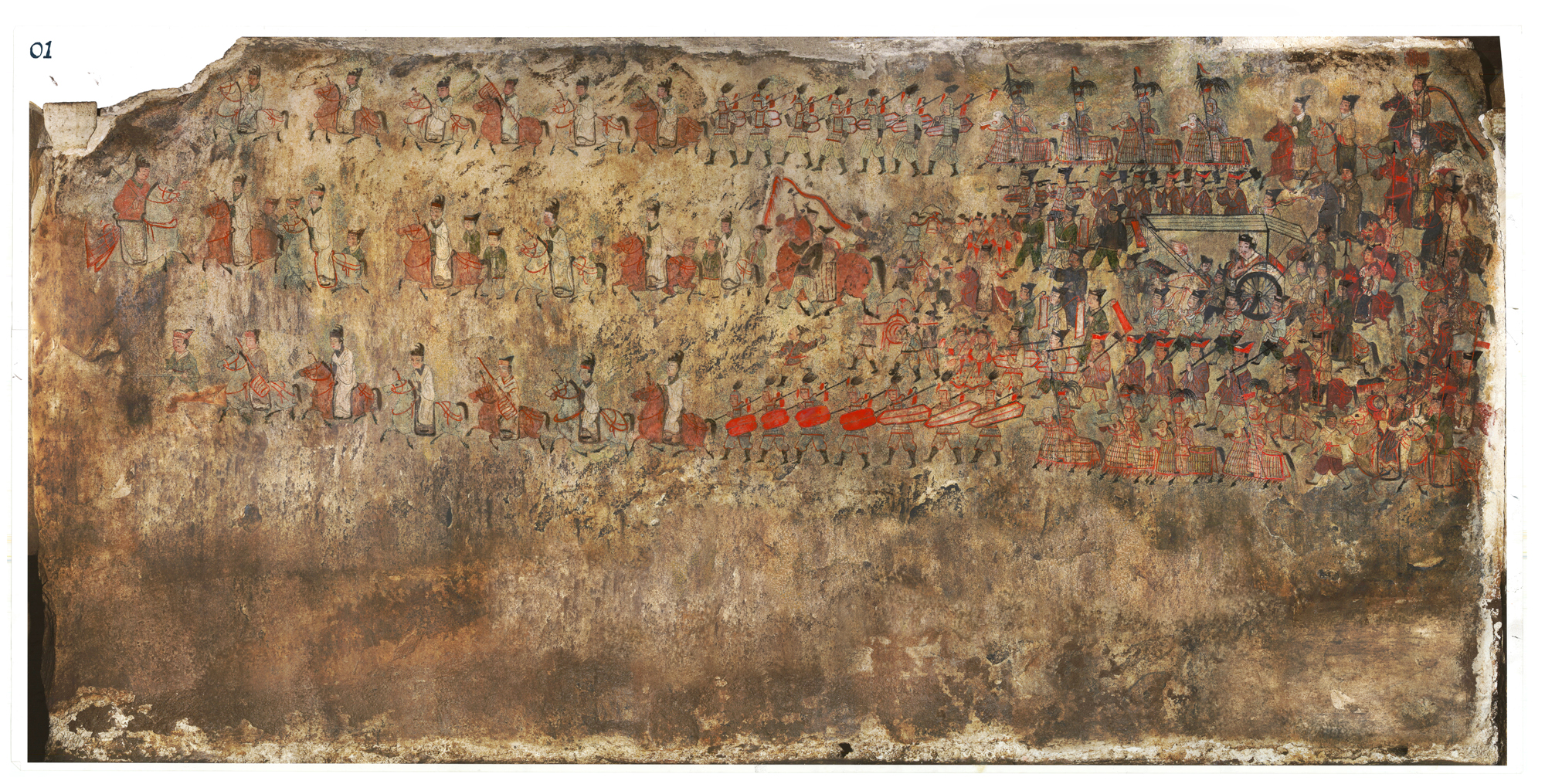 Preserved wall mural of Anak tomb 3 (procession scene).